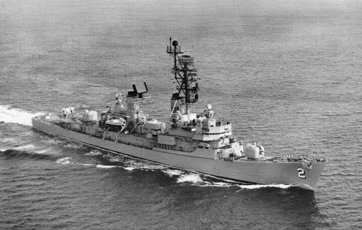 The U.S. Navy guided missile destroyer USS Charles F. Adams (DDG-2) underway, in 1973-74.